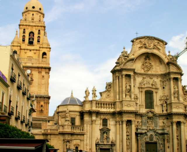 Cathedral of Murcia, Spain